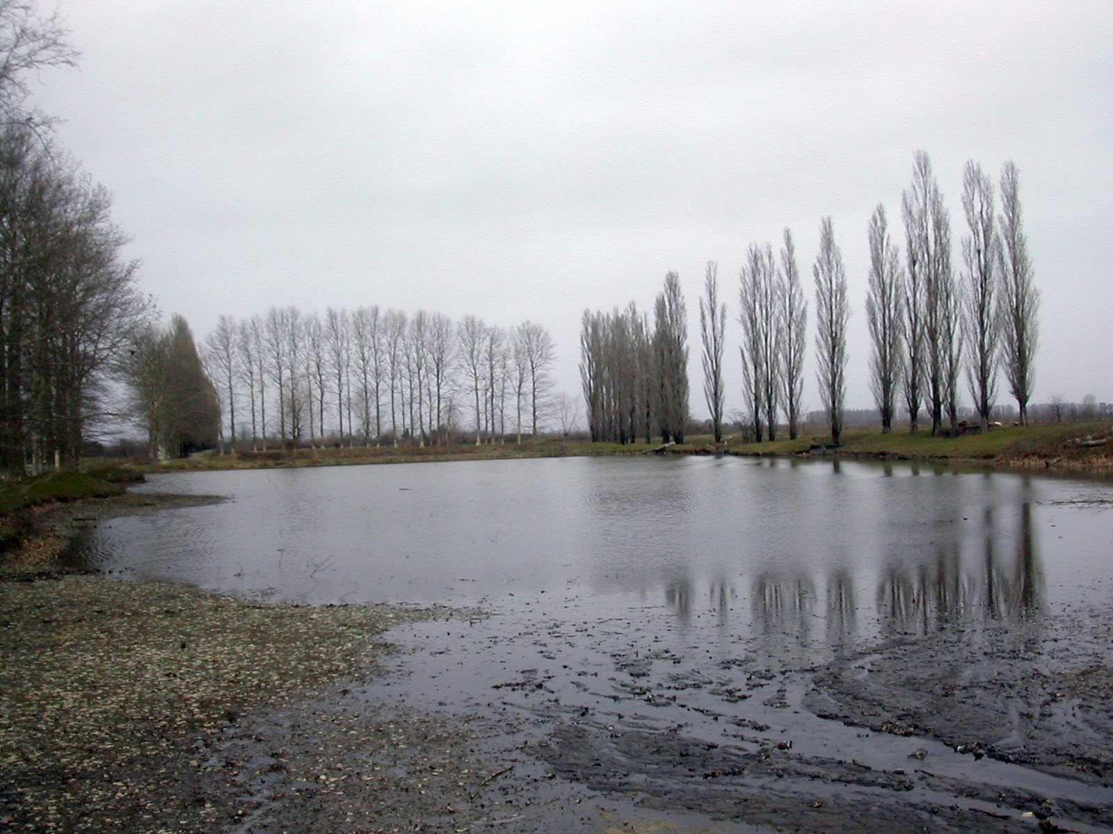 Nadarbazevi lake, Lanchtuti ditrict, western Georgia